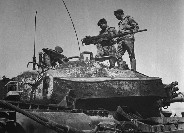 Destroyed Israeli Centurion tank